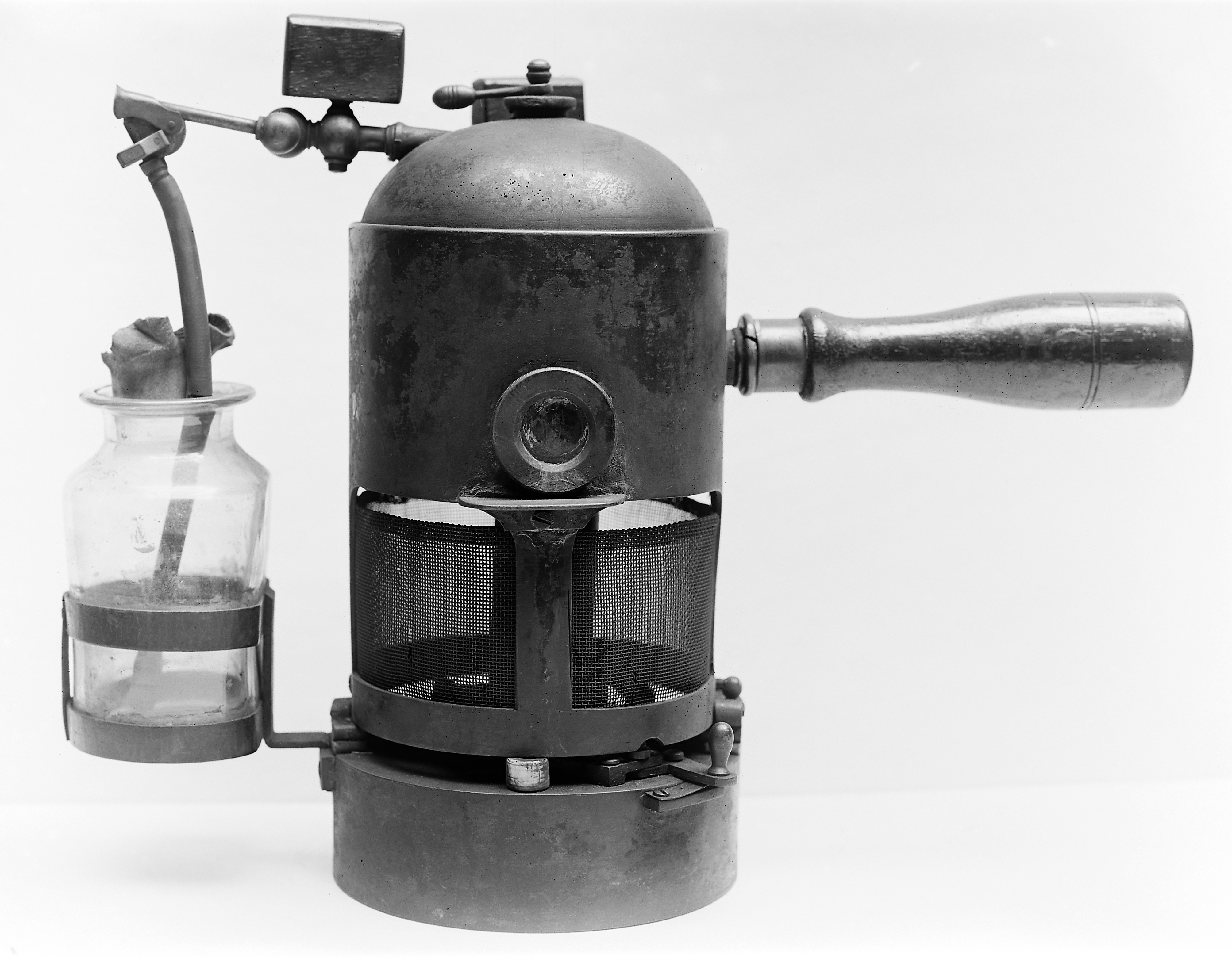 Lister's steam spray. Photograph. Wellcome Images Keywords: lister spray; Joseph Lister; puffing billy; apparatus